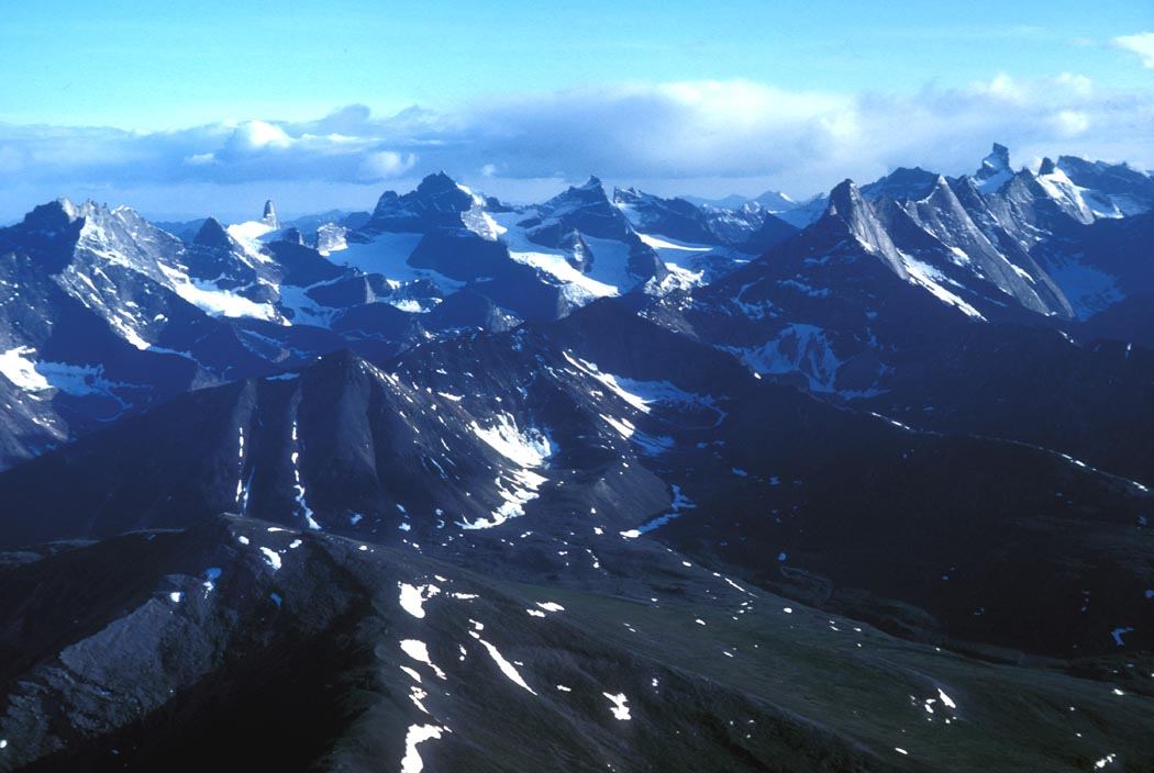 Arrigetch Peaks Gates of the Arctic National Park